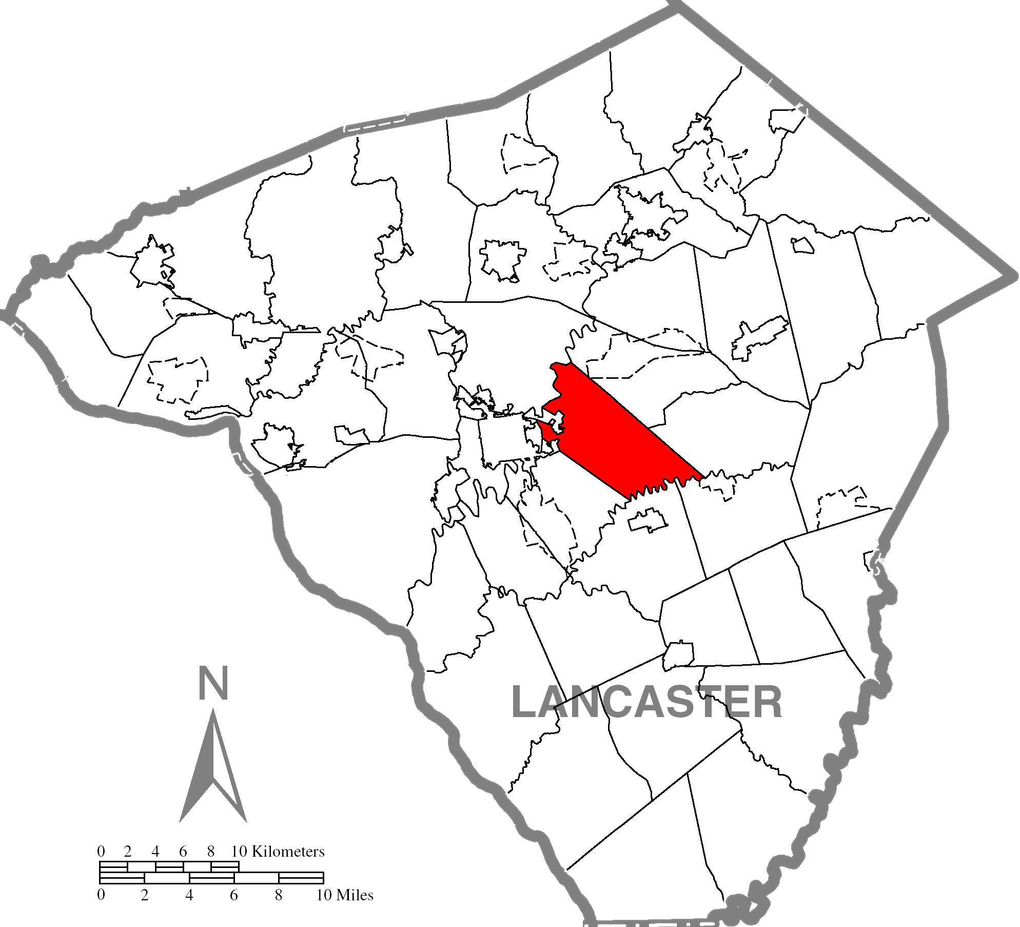 Highlighted Lancaster County map of East Lampeter Township.